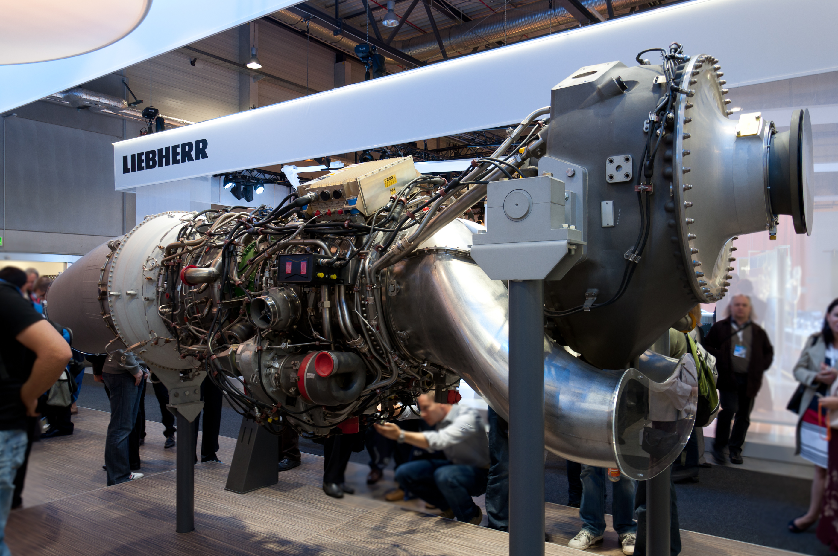 Turboprop engine cutaway of an Airbus A400M, presented by MTU Aero Engines on ILA Berlin Air Show 2012.